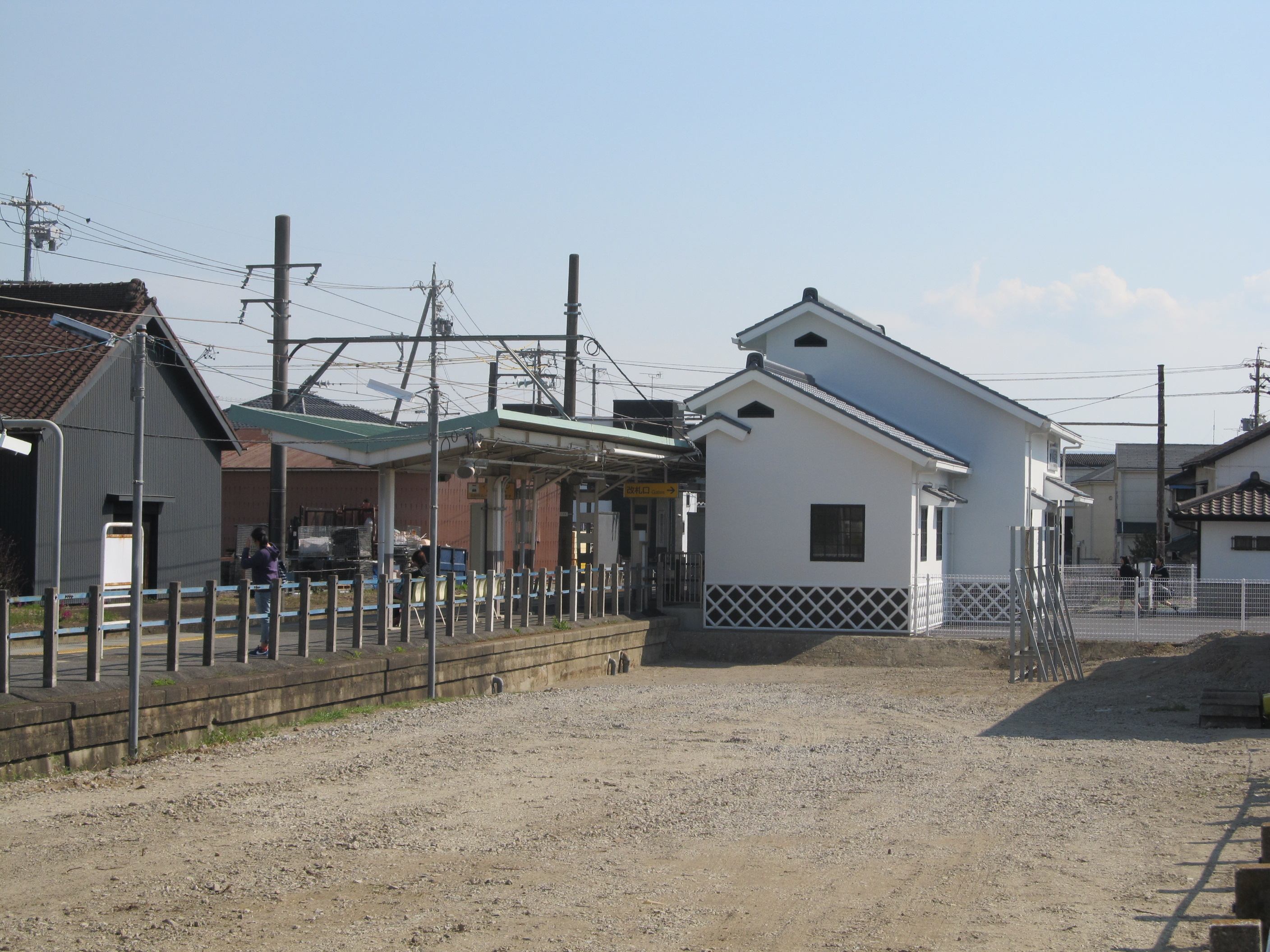 Nagoya Railroad Mikawa Line Takahama Minato Station Platform and Building